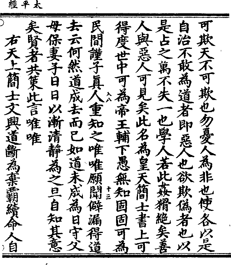 Taipingjing